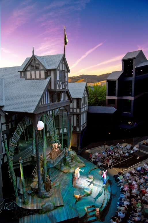 Allen Stage of the Oregon Shakespeare Festival